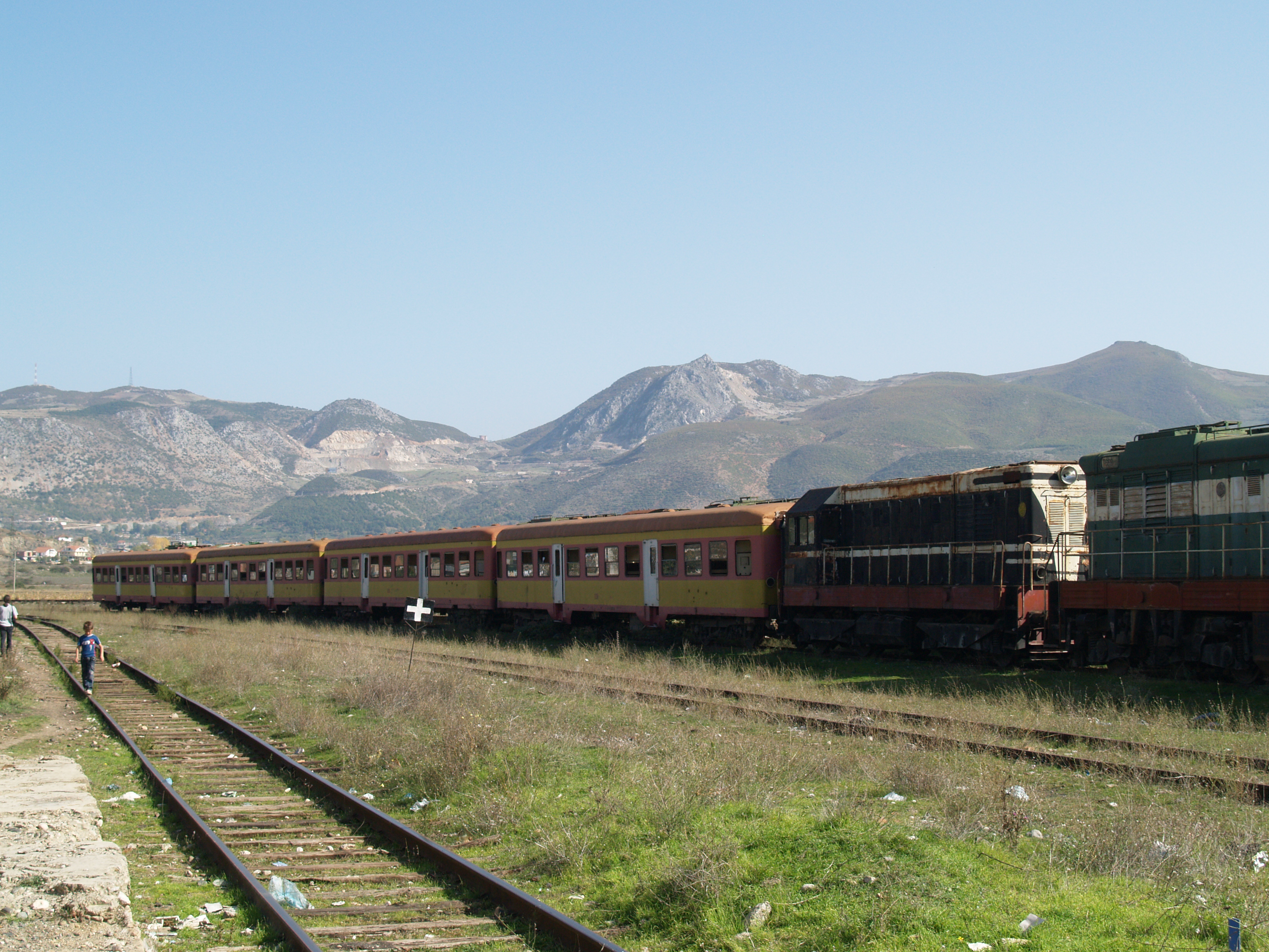 A train stored at Prrenjas railway station. These trains are going to be moved to Elbasan as this railway is being closed down.